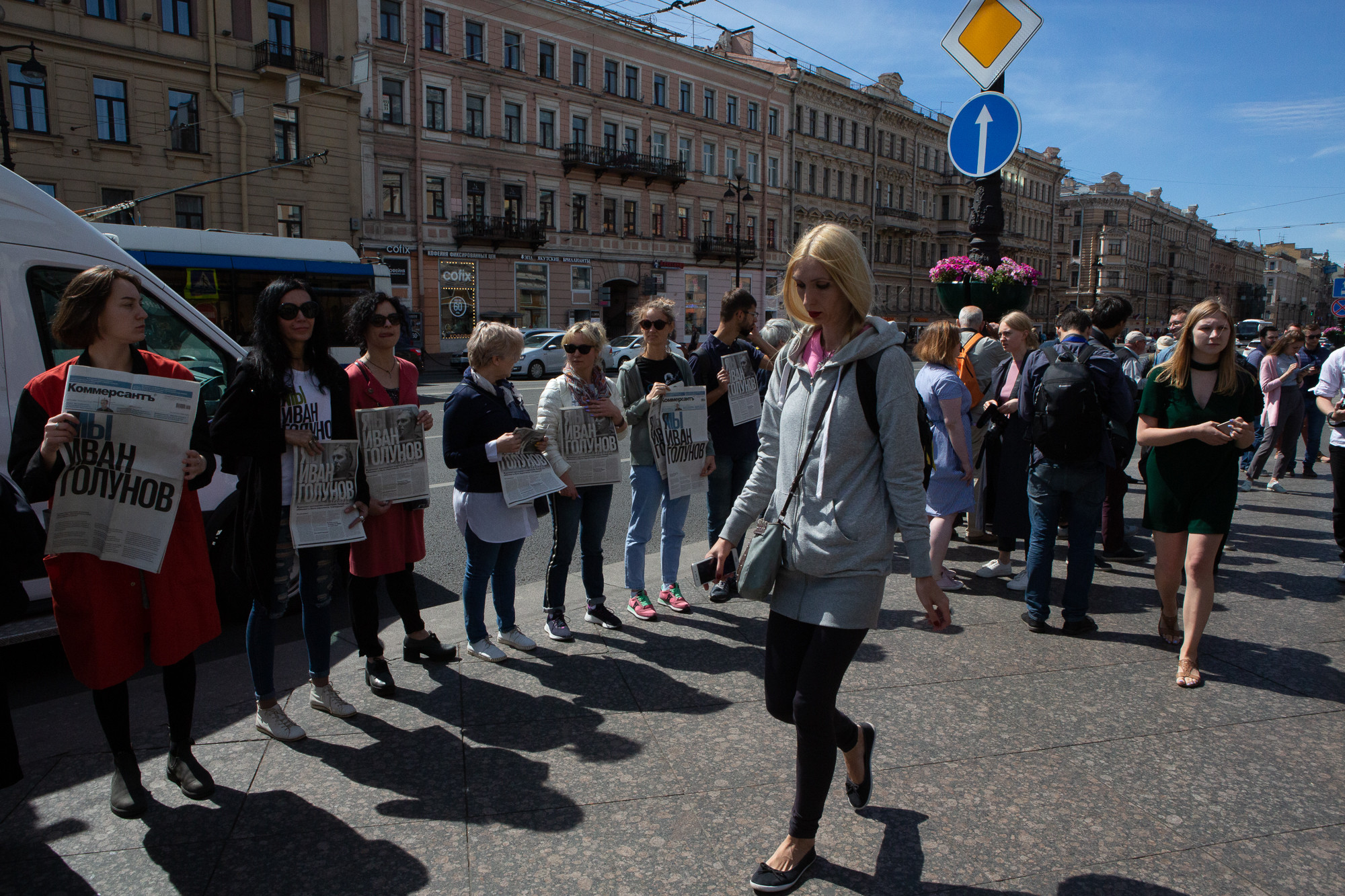 Ivan Golunov action (flash-mob format, reading newspapers) on Vosstania Square, St. Petersburg